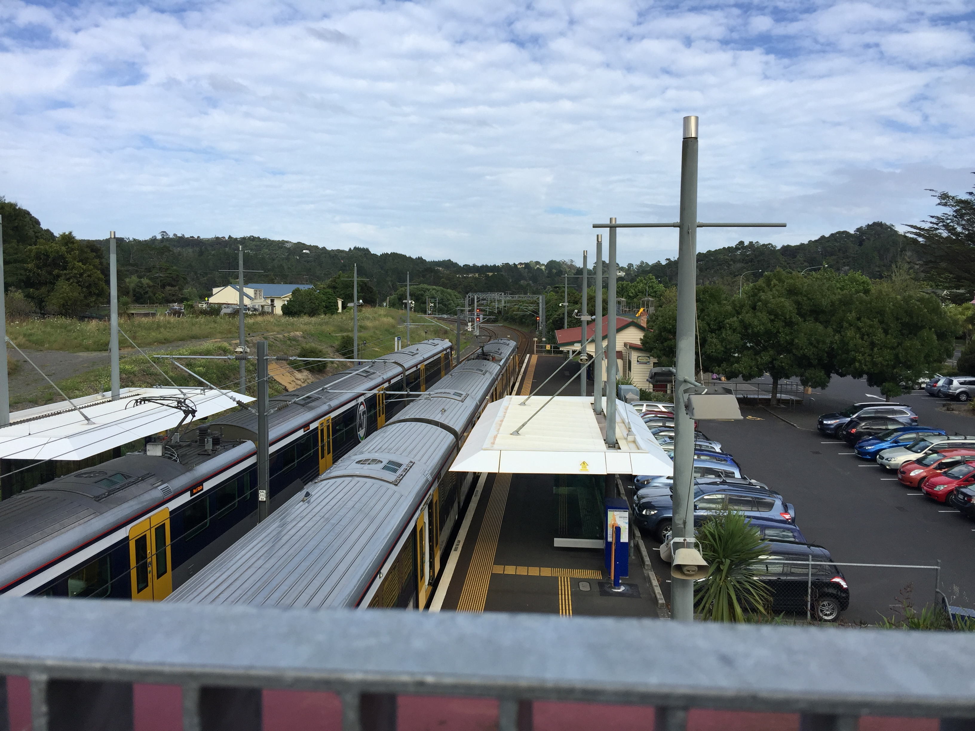 Photo of two EMU's in both platforms. Photo is taken from the footbridge facing west with platform 1 on right right, and platform 2 on the left.